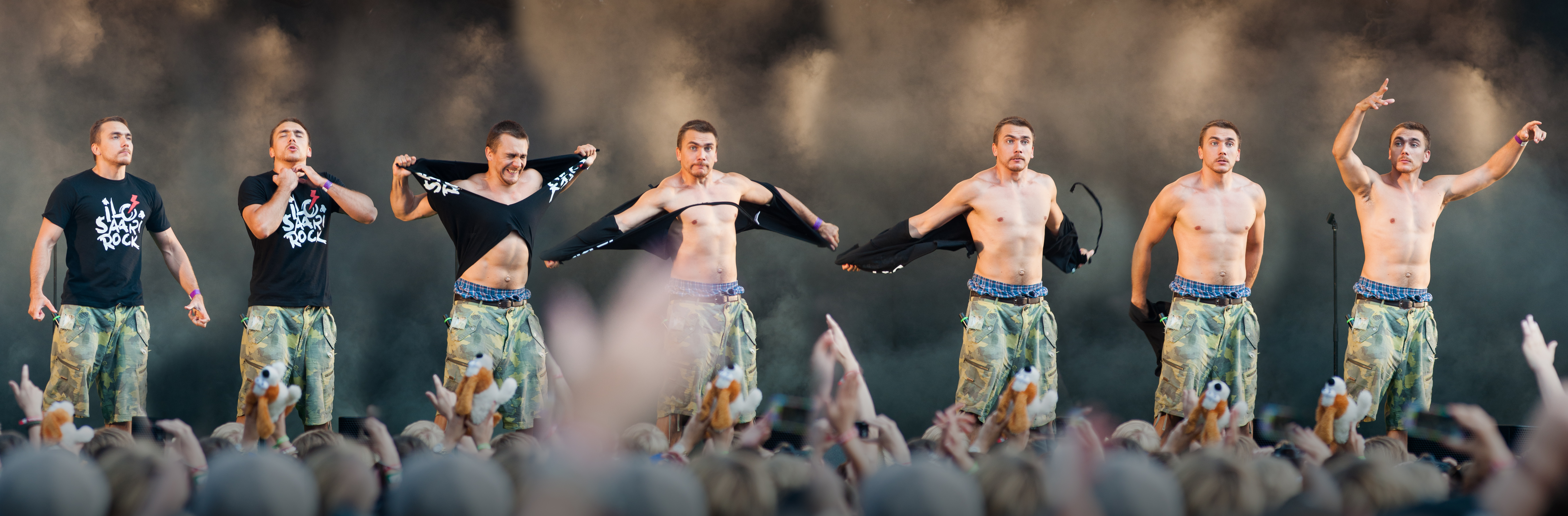 A composite of Finnish rapper Ruudolf tearing his T-shirt at the 2013 Ilosaarirock festival in Joensuu, Finland.